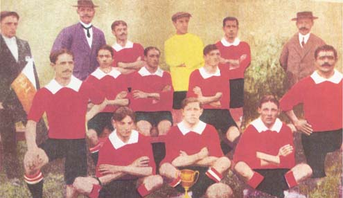 plantel campeón copa Bullrich Juan Collazo, José Buruca Laforia, Manuel Deluchi. En el medio: Braulio Ibañez, Viegas Amadeo Chiarella. Abajo: Carlos Moretti, Pedro García, Amadeo Larralde, Miguel Larralde Balbino Ochoa.